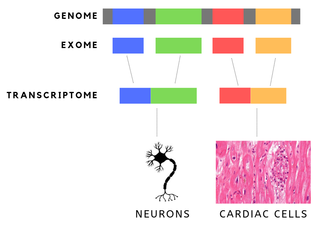 et